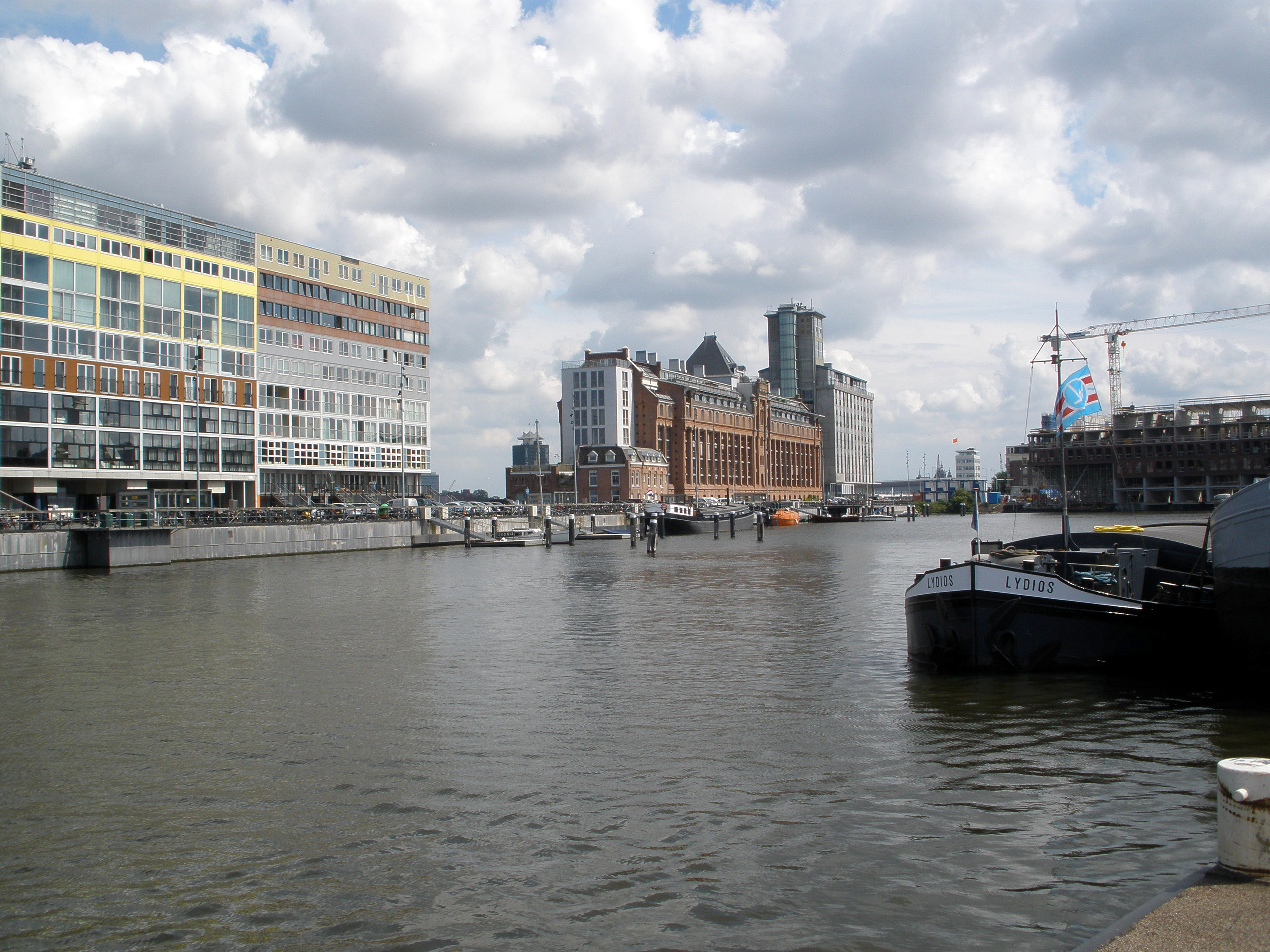 The Oude Houthaven, a harbour in Amsterdam. On the left, the 2002 building on the Silodam designed by agency MVRDV. Beyond that, two former grain silos converted into apartment buildings.